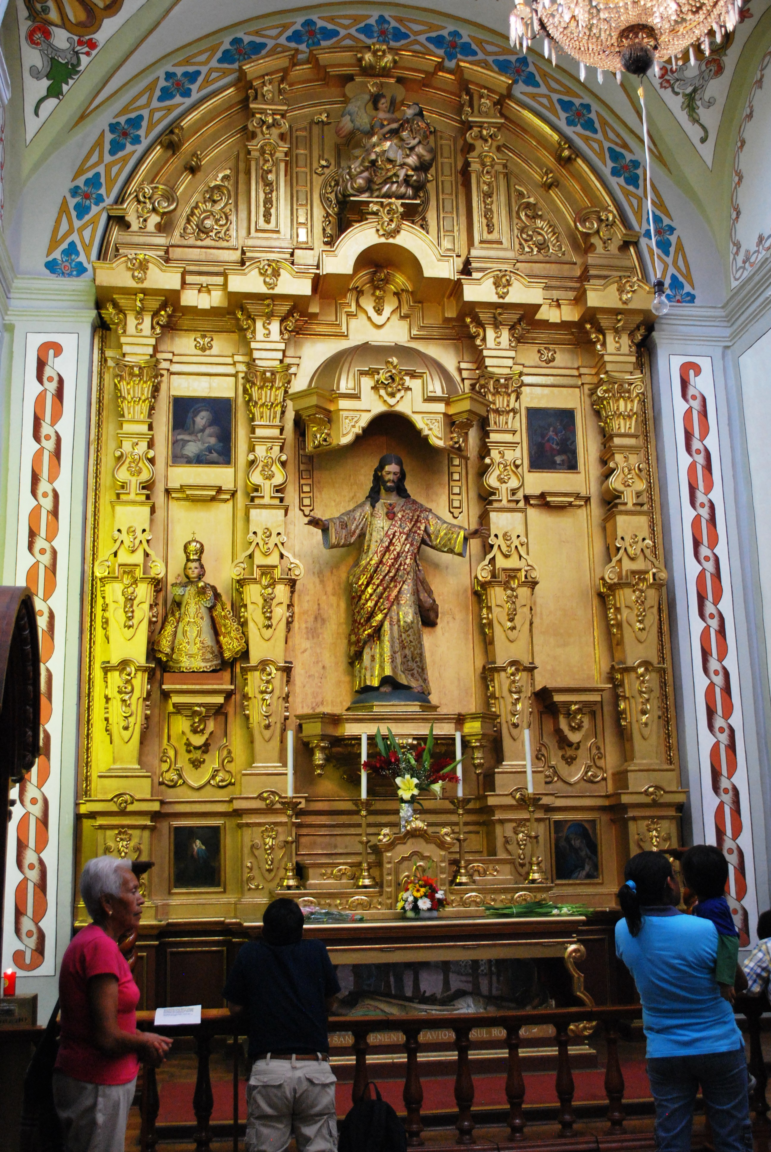 Altarpiece to the Sacred Heart of Jesus at the side chapel of the Church of the Virgin of El Carmen in San Angel, Mexico City